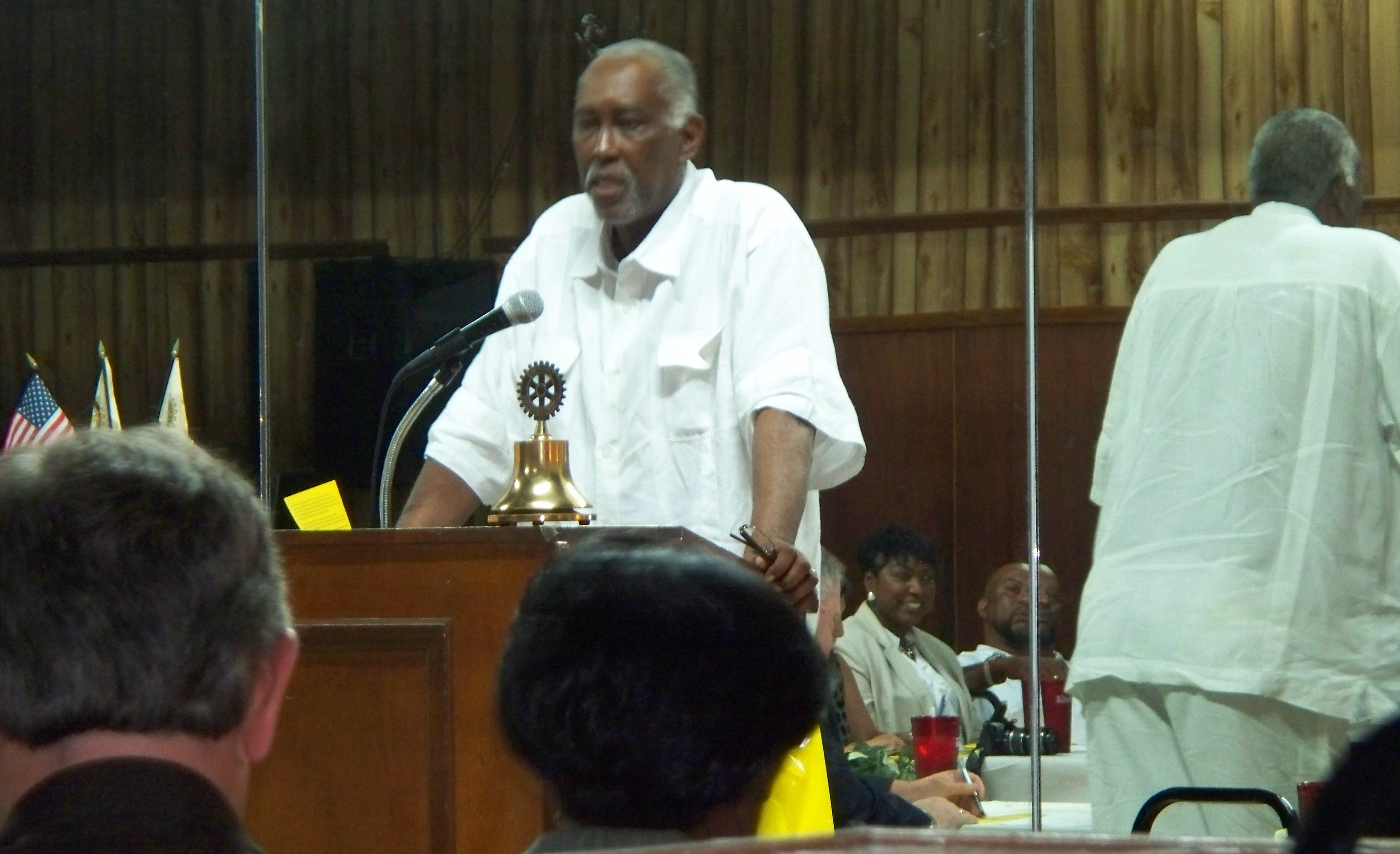 Collis Temple Jr addresses the 2011 banquet of the Rotary Club of Kentwood, Louisiana.